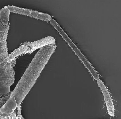 Triatoma infestans nymph antenna